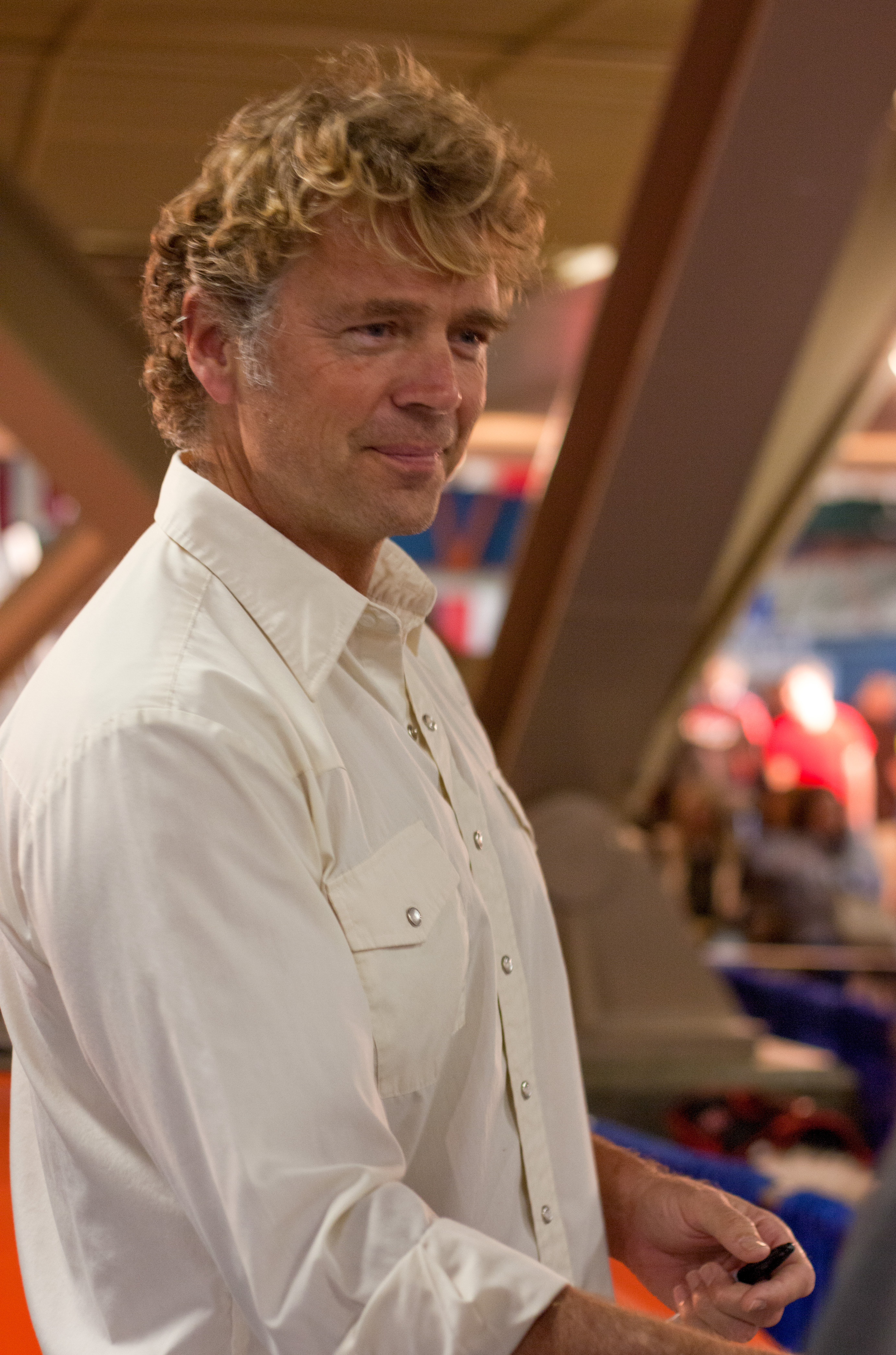 John Schneider at the 2010 Sacramento Autorama.